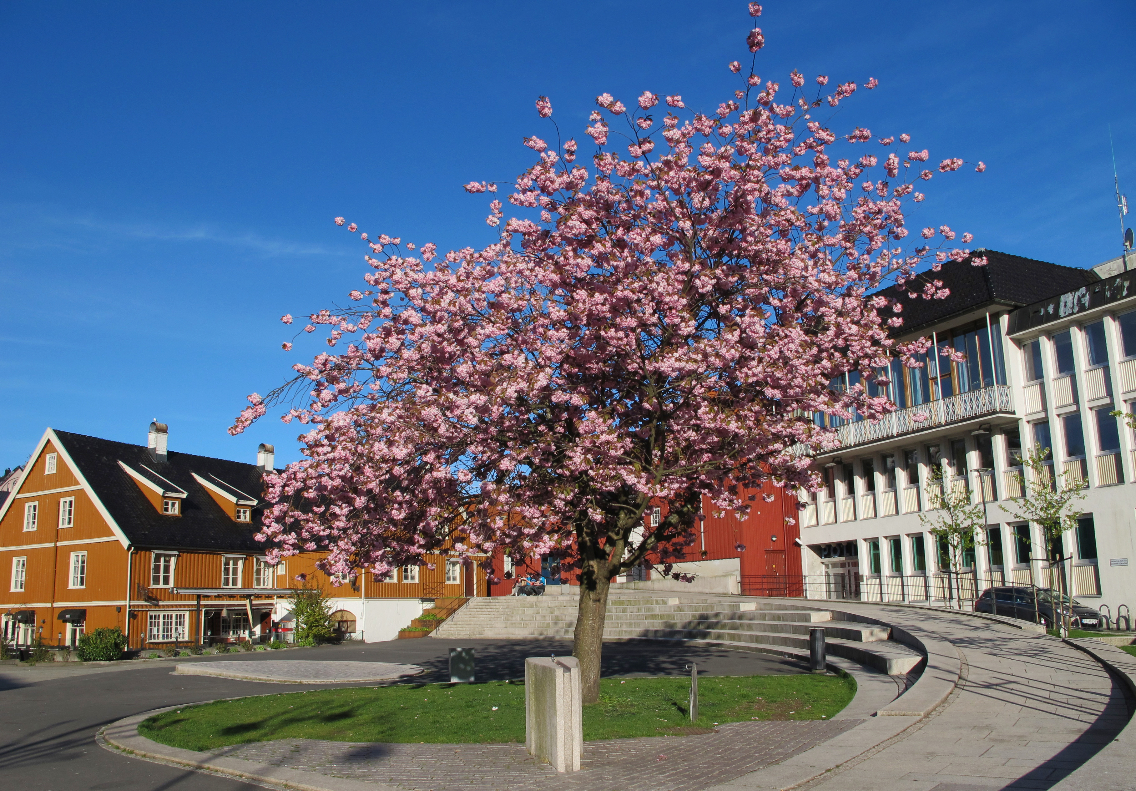 Kanalplassen in Arendal